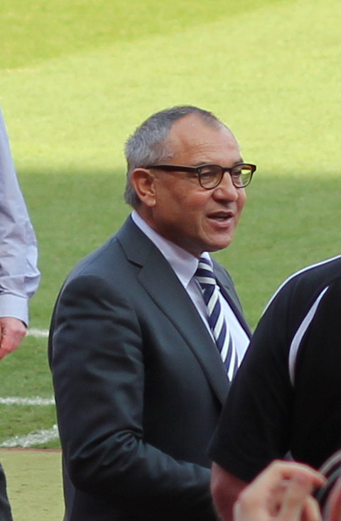 Felix Magath, football coach with German side VfL Wolfsburg, 2011/12 season